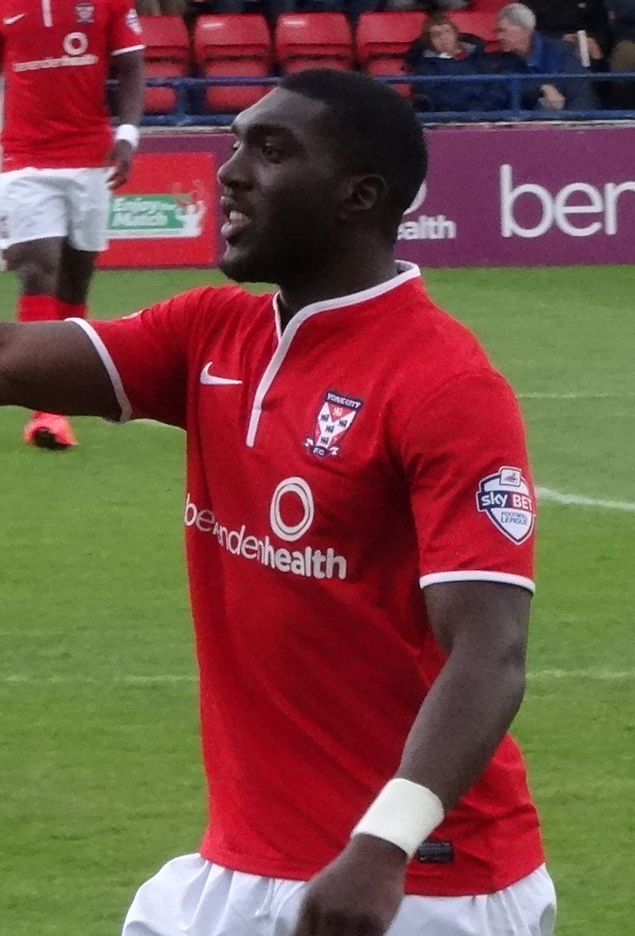 Femi Ilesanmi playing for York City against Northampton Town at Bootham Crescent, York on 16 August 2014